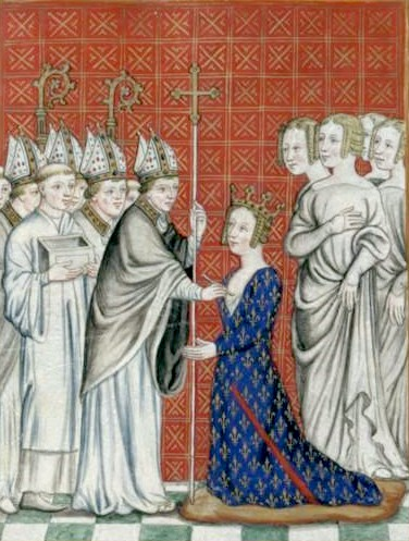 Joanna of Bourbon